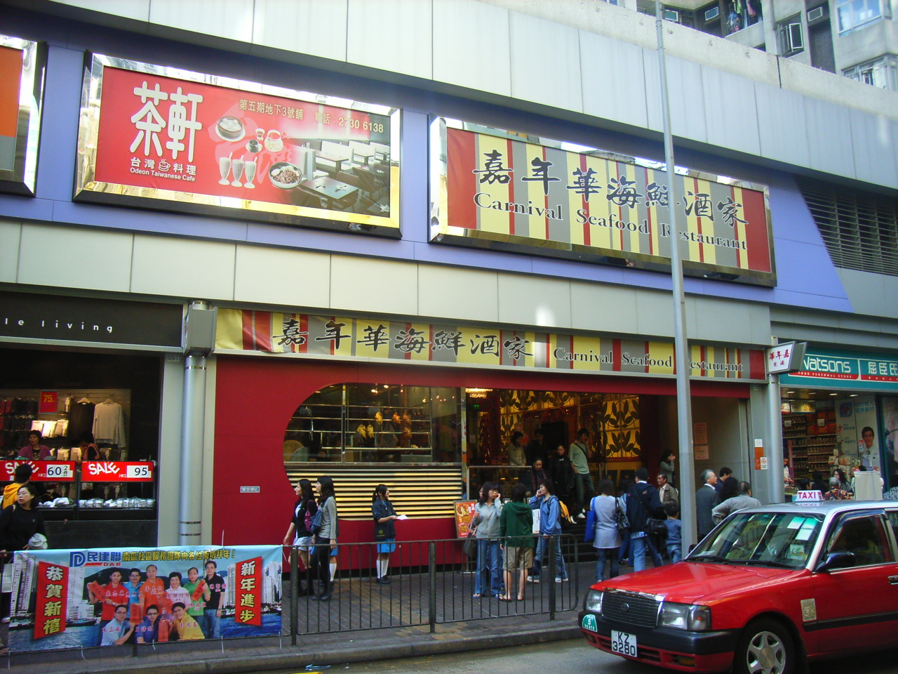 香港島南區 成都道 中式海鮮酒家